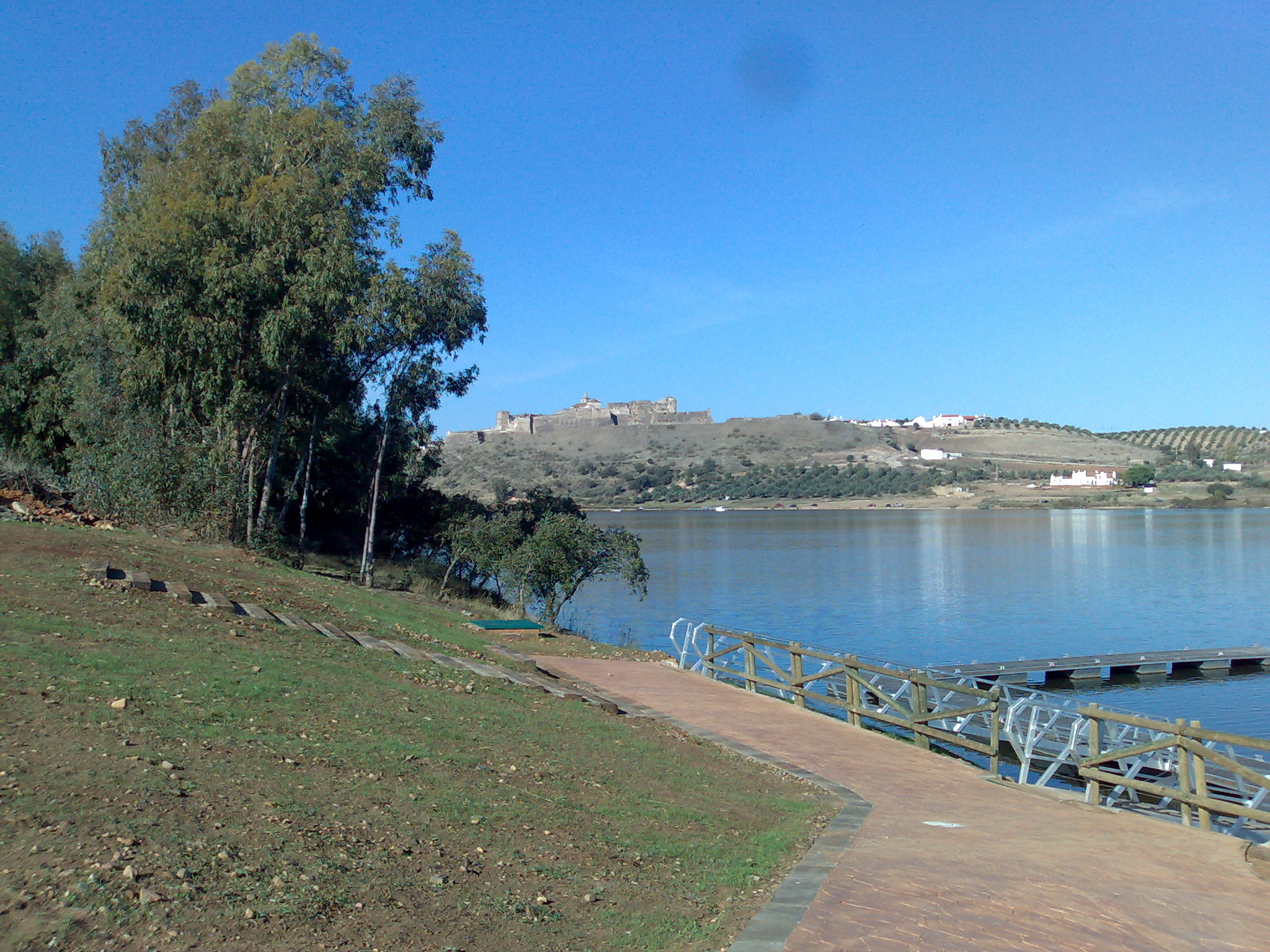 Vila Real (Olivença)